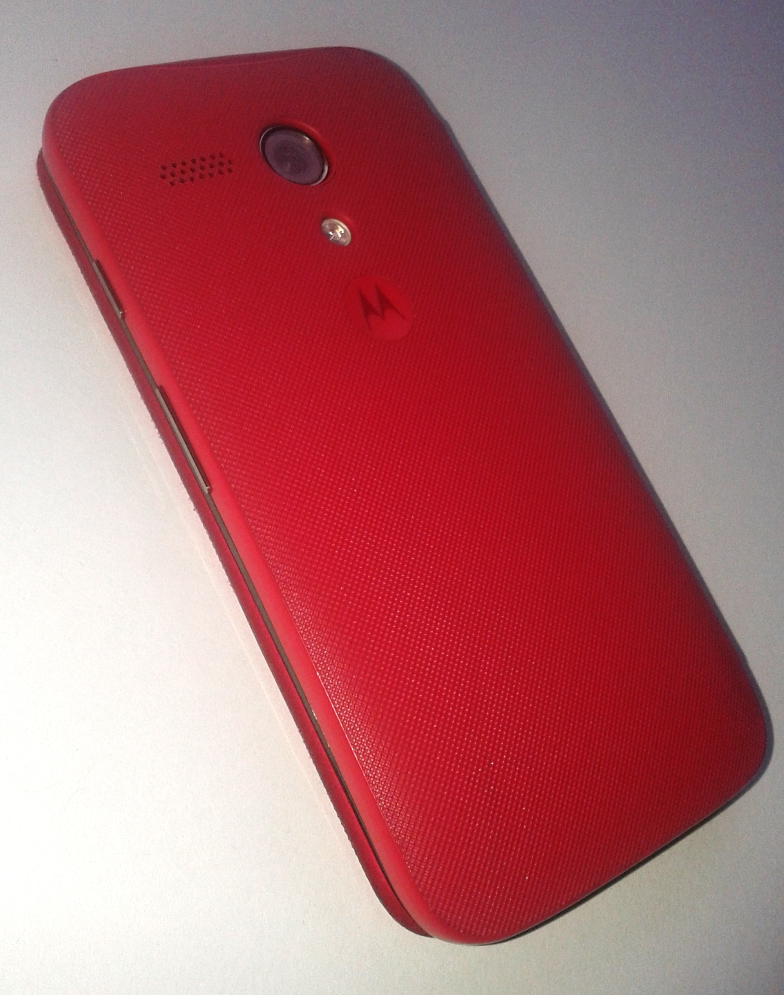 Moto G XT1032 8GB with red Flip Shell